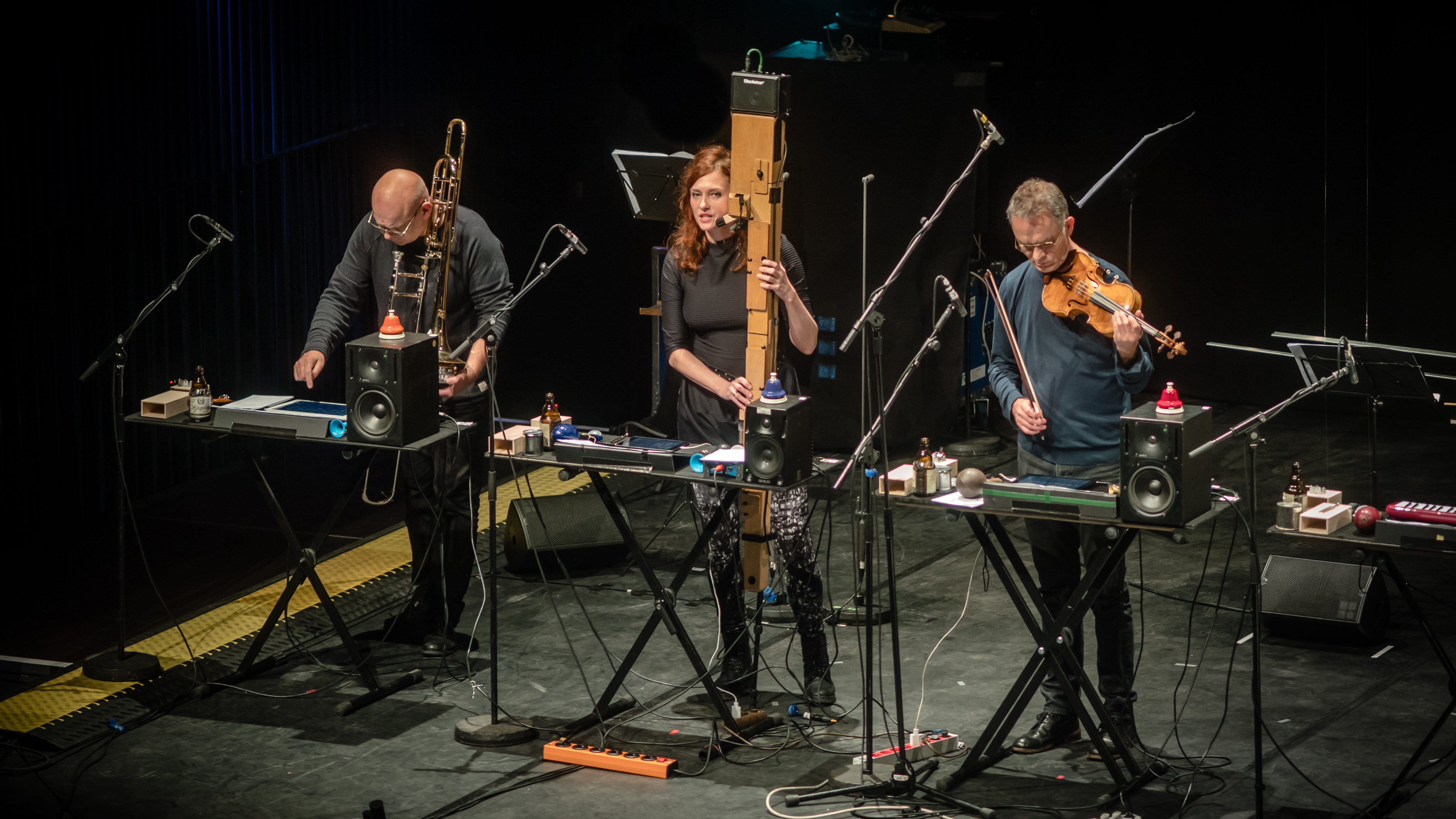 at Musiktage Donaueschingen, Germany